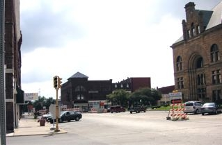 View of downtown Hartford City, Indiana